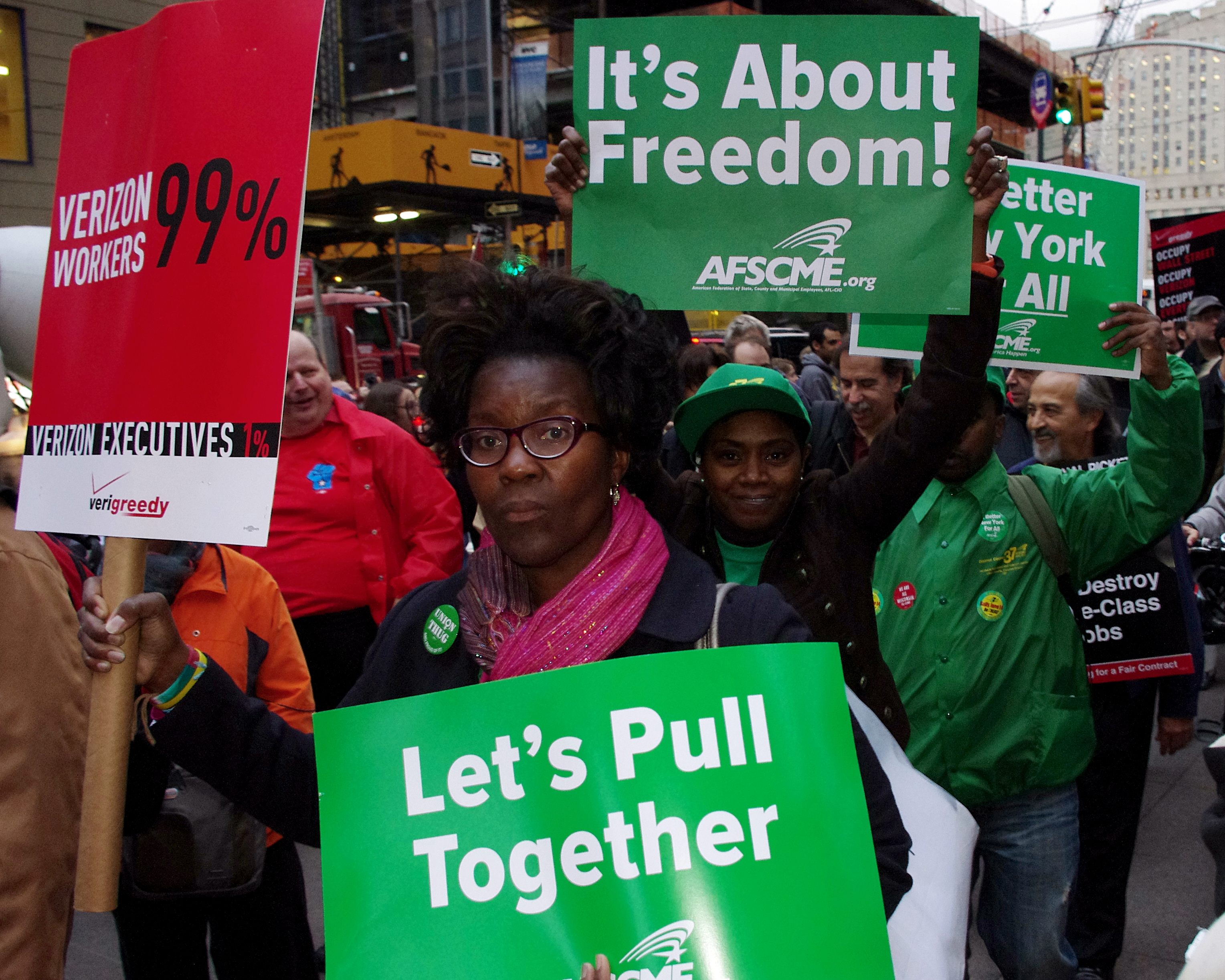 Photos from around Zuccotti Park on Day 36 of Occupy Wall Street in New York, Friday, October 21.